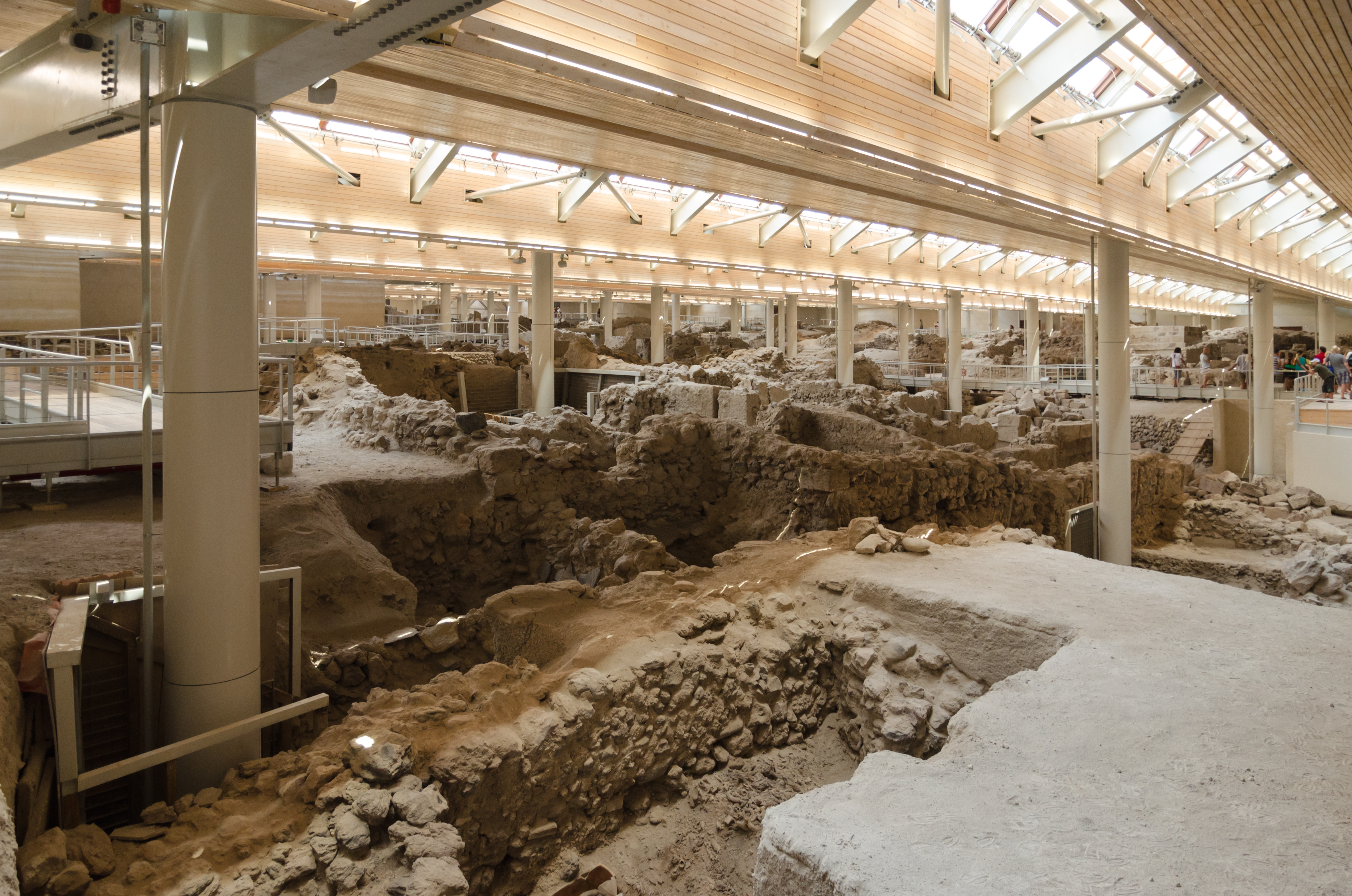 Akrotiri is the name of an excavation site of a Minoan Bronze Age settlement on the Greek island of Santorini, associated with the Minoan civilization due to inscriptions in Linear A, and close similarities in artifact and fresco styles. Akrotiri was buried by the widespread Theran eruption in the middle of the second millennium BC (during the Late Minoan IA period); as a result, like the Roman ruins of Pompeii after it, it is remarkably well-preserved.